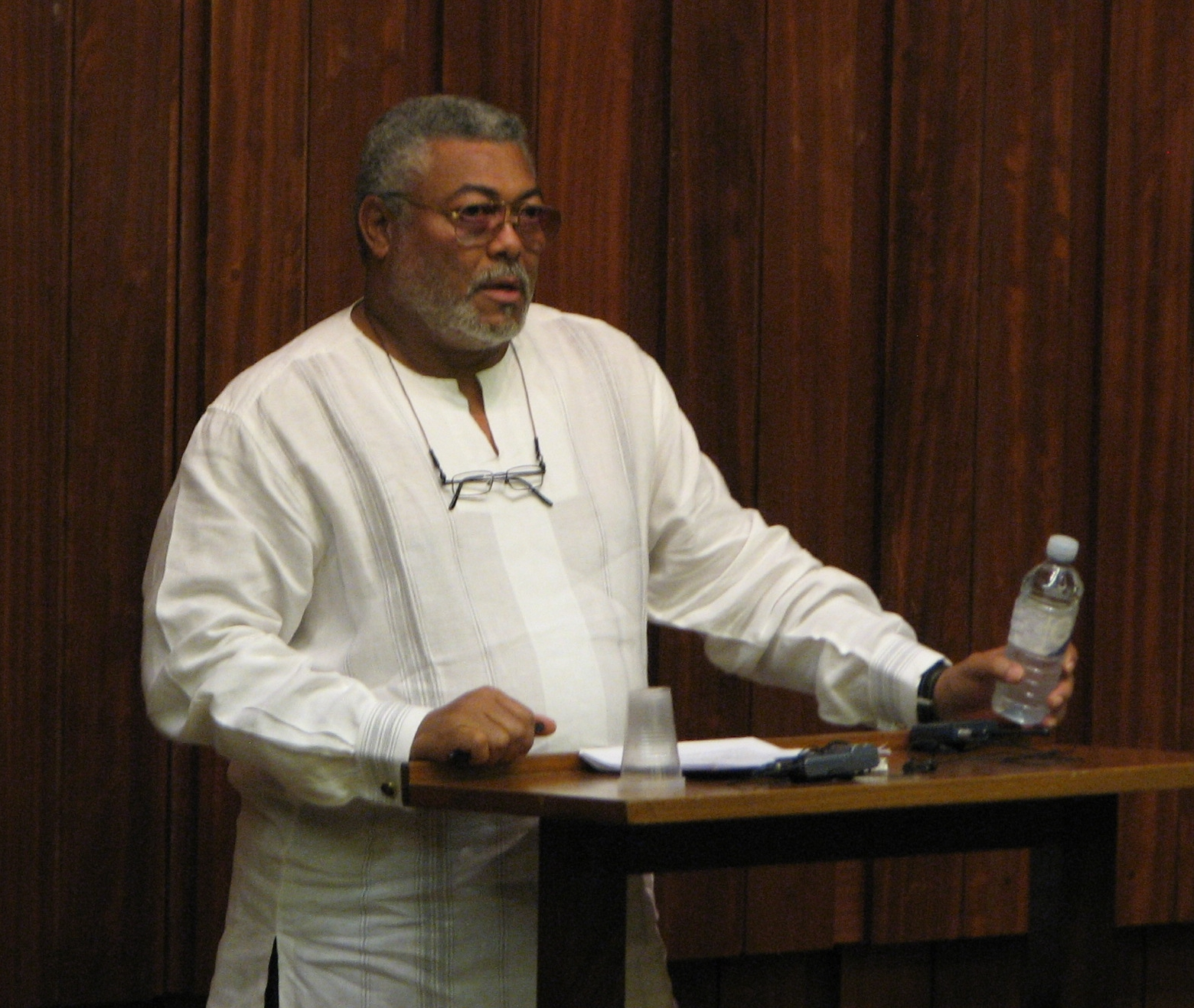 Former president of Ghana Jerry Rawlings, speaking at the Oxford Law Faculty.